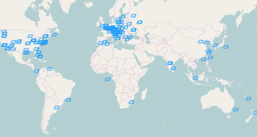 Map showing distribution of Dash Masternodes as of March 19, 2017.